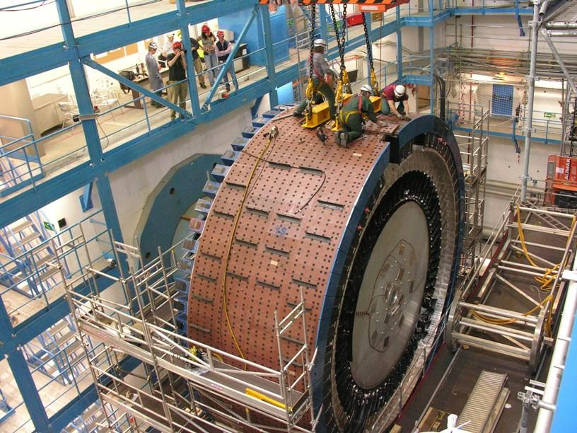 The modules for Extended Barrel A (EBA), one of three barrel assemblies that comprise the Tile Calorimeter, were assembled and tested at Argonne. In the picture at left, EBA is shown in the ATLAS cavern at the moment of completion of its assembly from 64 separate modules in May 2006. This completed the mechanical installation of the calorimeter (the barrel was installed in December 2004 and EBC in February 2006).